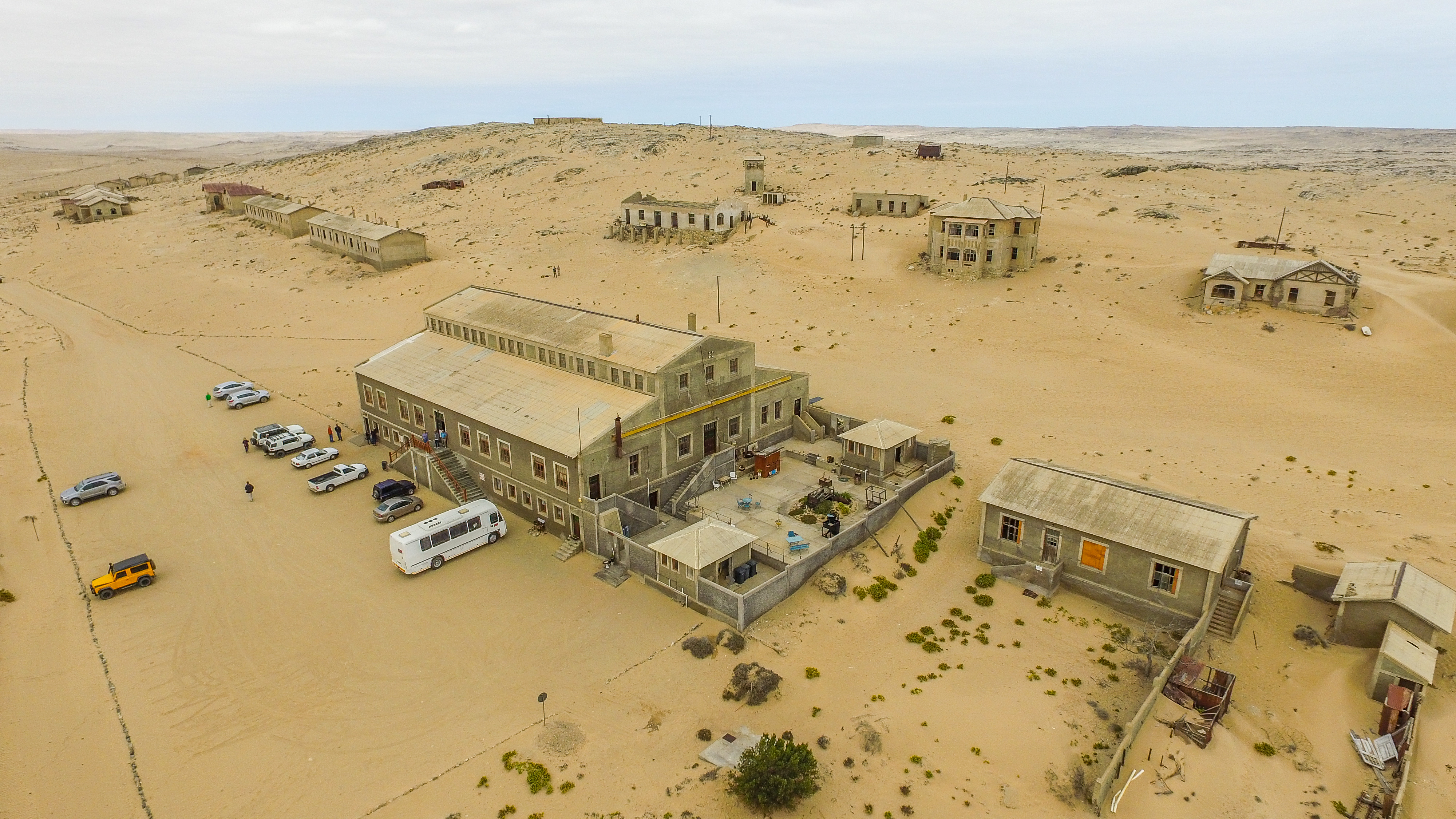 Kolmanskop, Coleman's hill, is a ghost town in the Namiba desert in southern Namibia, 10 kilometres inland from the port town of Lüderitz.